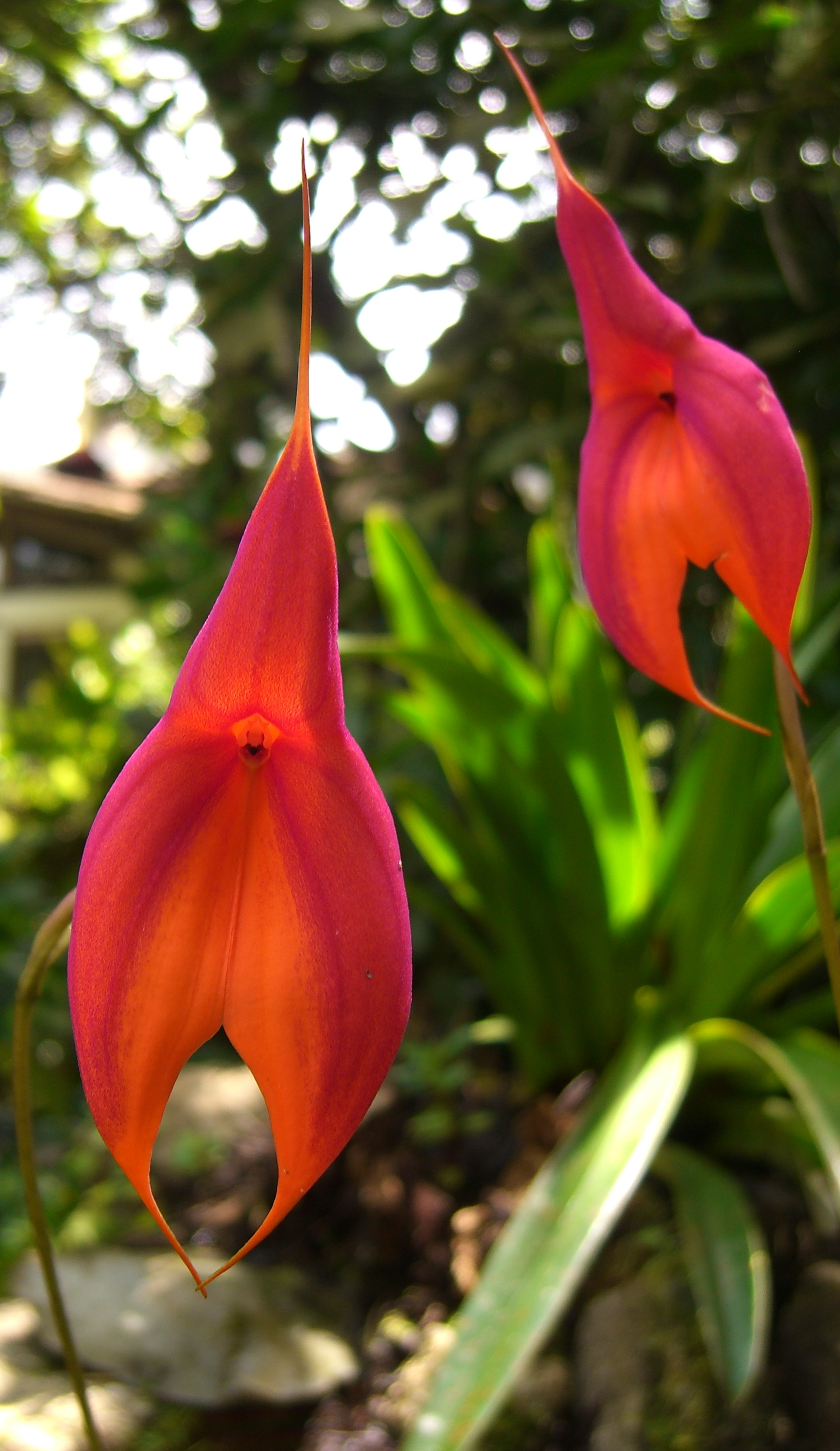 Please report references to .